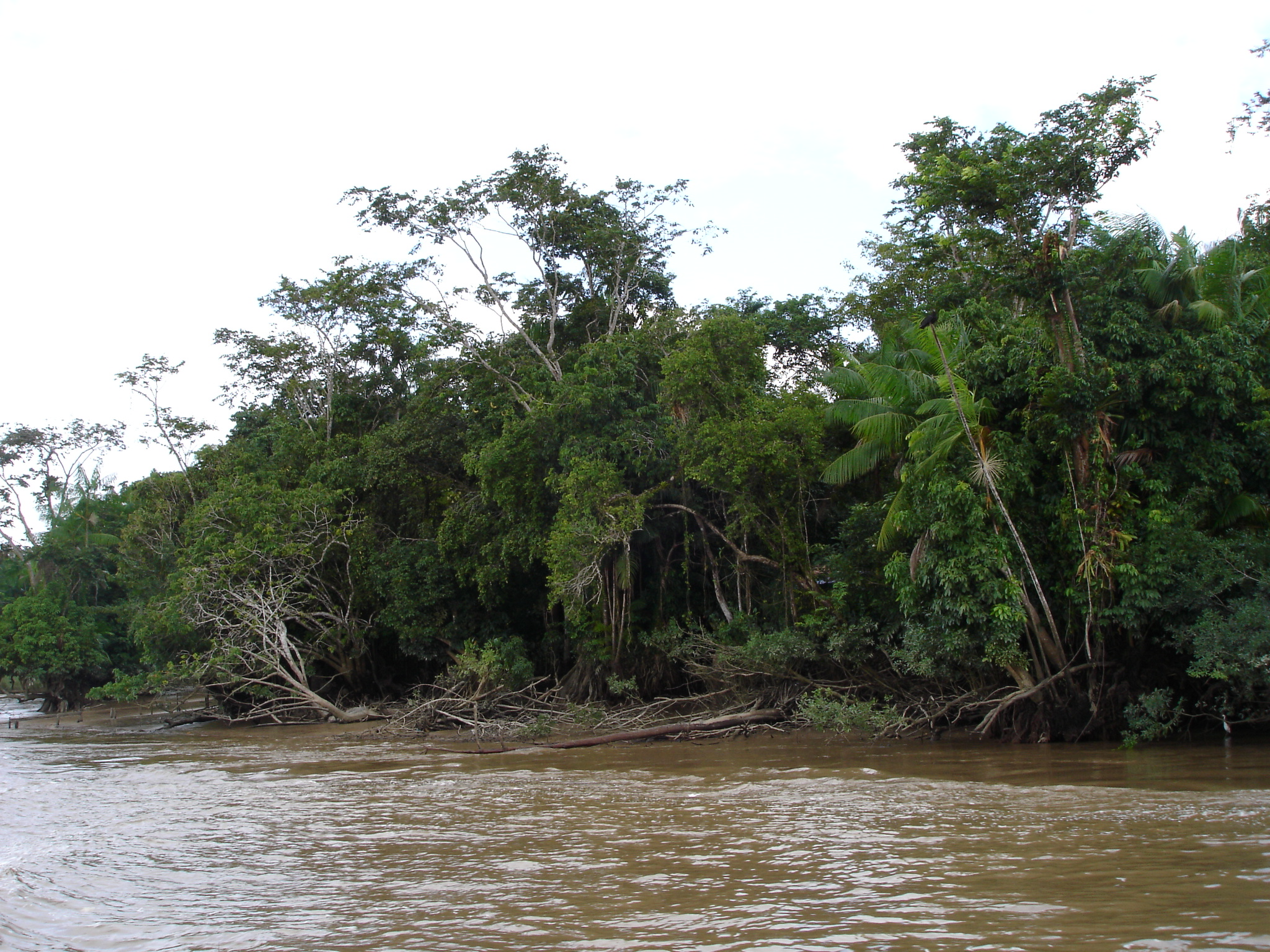 Photo of Amazon river